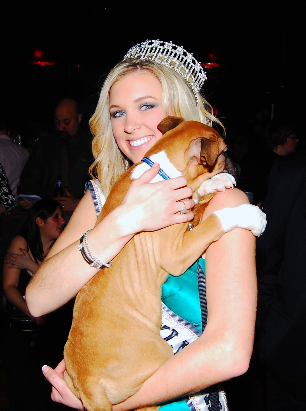 Miss Pennsylvania USA Lindsey Nelsen Holding Pit bull Pup Henry at the Hello Bully Rescue Gala